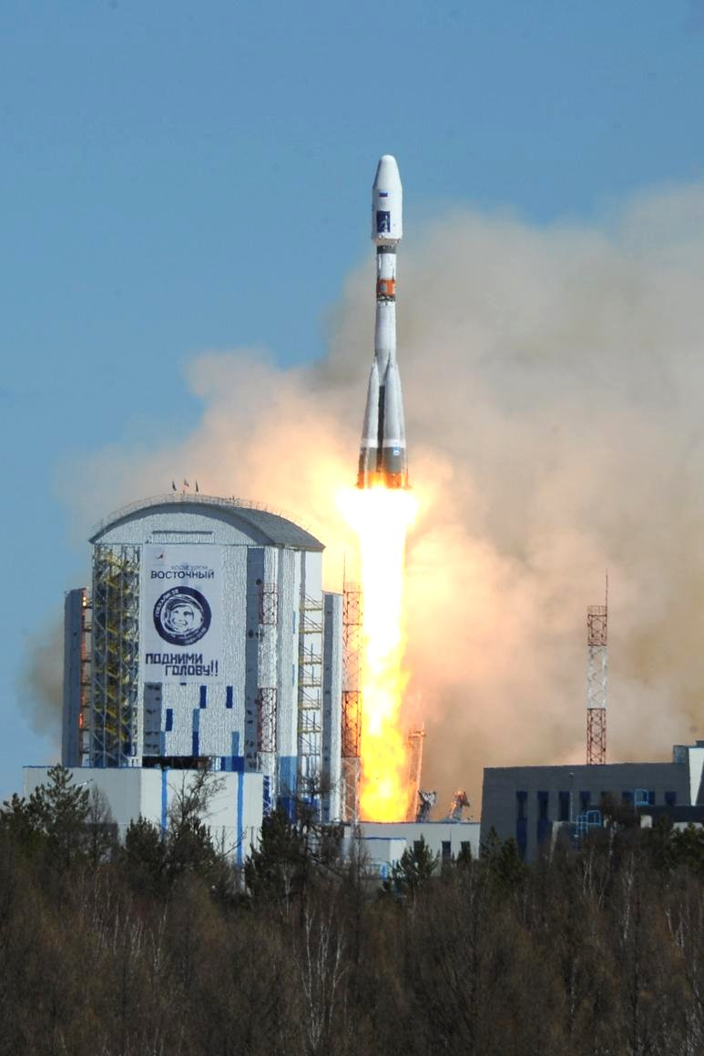 Launch of the Soyuz-2.1a from Vostochny 2016-04-28. There is also Yuri Gagarin's face and slogan "Raise your head!" to commemorate the 55th anniversary of Gagarin's flight visible on the photo.